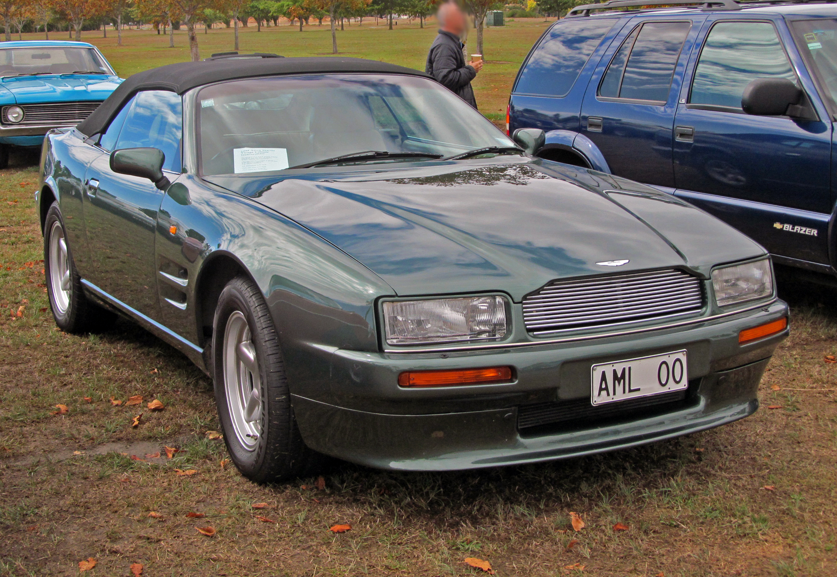 A very rare Aston here - not only it is a Virage, but it's also a Volante, of which only 233 were made between 1992 and 1996.